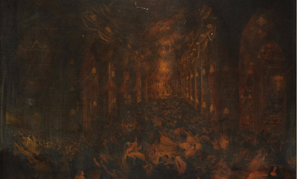 Painting made by Nathan Hughes (1849-1870).